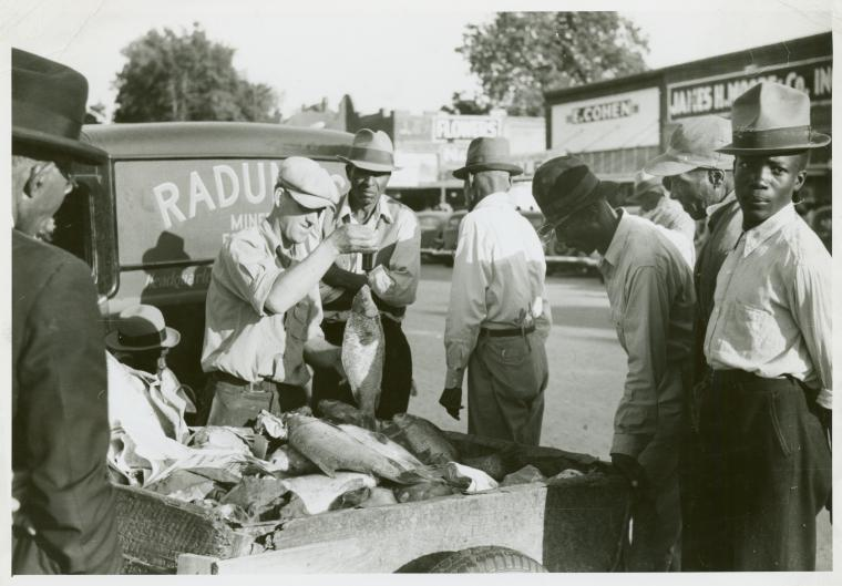 Digital ID: 1260038. Selling fish on Saturday afternoon, Lexington, Holmes County, Mississippi Delta, Mississippi, November 1939.. Wolcott, Marion Post -- Photographer. November 1939 Notes: Original negative #: 30657-M2 Source: Farm Security Administration Collection. / Mississippi. / Marion Post Wolcott. (more info) Repository: The New York Public Library. Schomburg Center for Research in Black Culture. Photographs and Prints Division. See more information about this image and others at NYPL Digital Gallery. Persistent URL: Rights Info: No known copyright restrictions; may be subject to third party rights (for more information, click here)